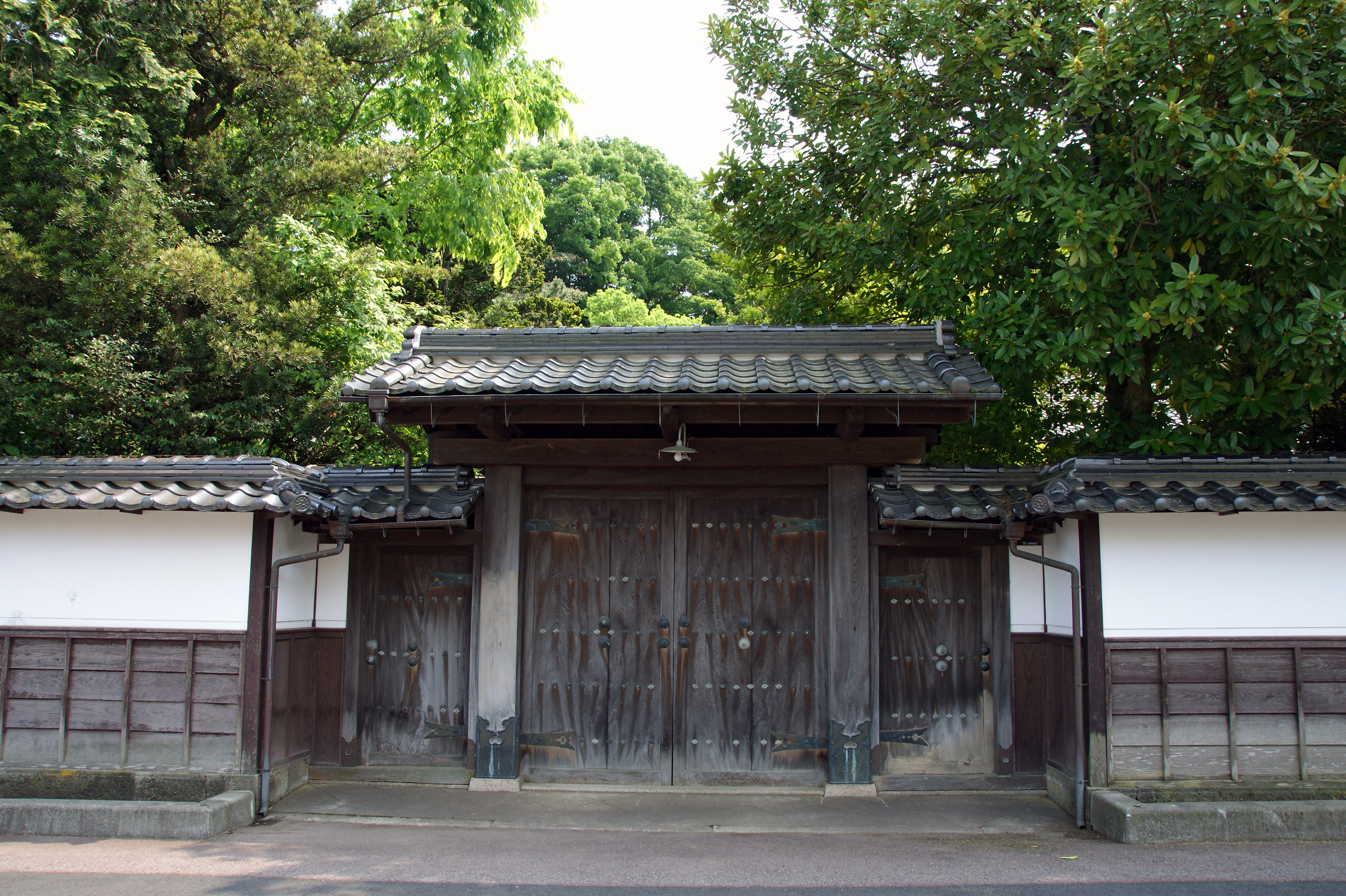 Kyogoku Residence in Toyooka, Hyogo prefecture, Japan